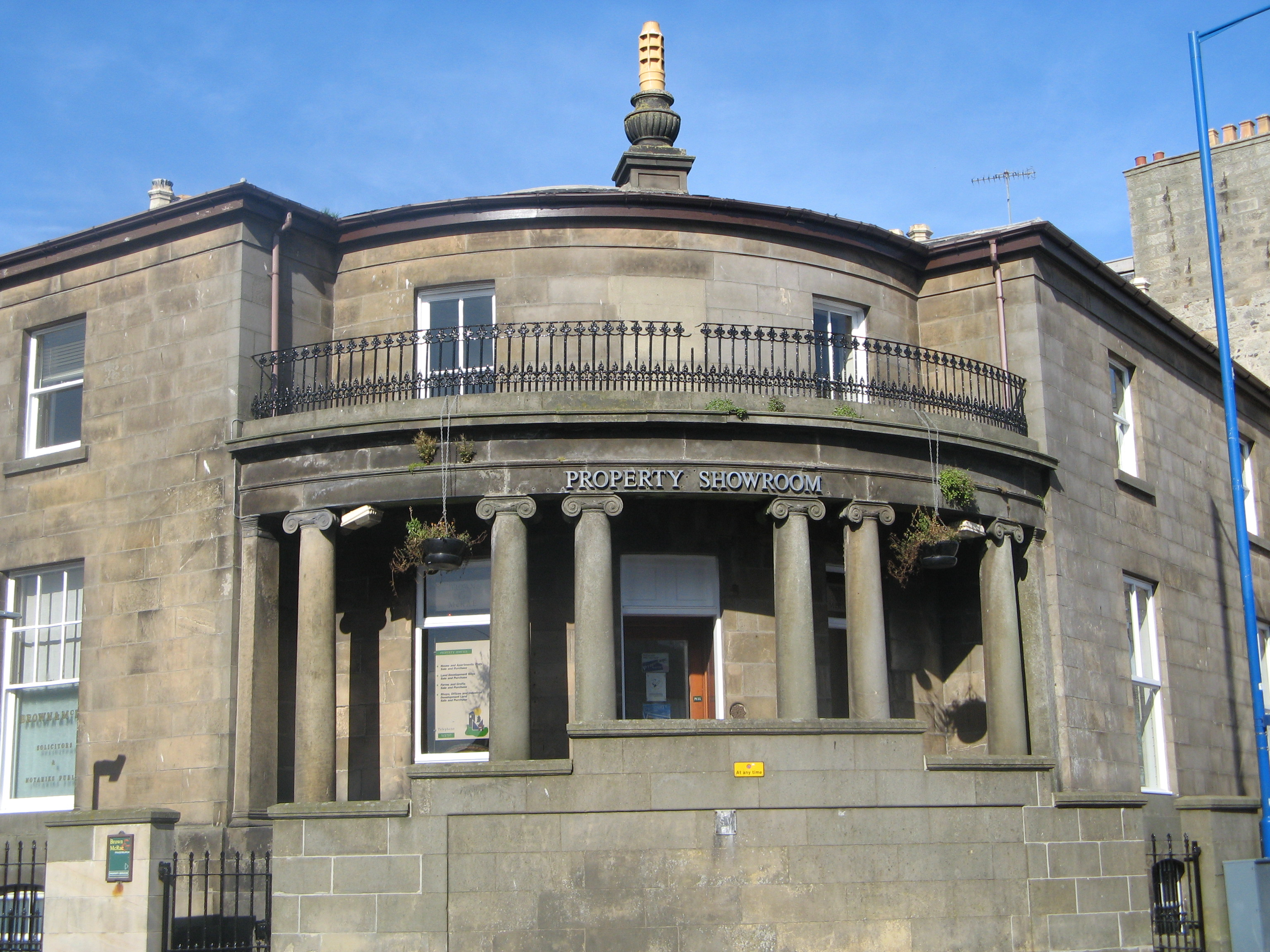 Custom House (formerly occupied by Bank of Scotland); category A listed building on Broad Street/Frithside Street, said to be in the style of Archibald Simpson